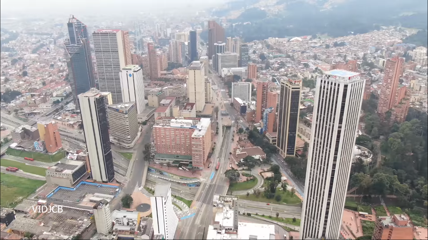 Bogotá International Center.